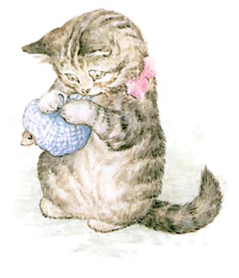 Illustration of Miss Moppet tying the mouse in the duster from The Story of Miss Moppet